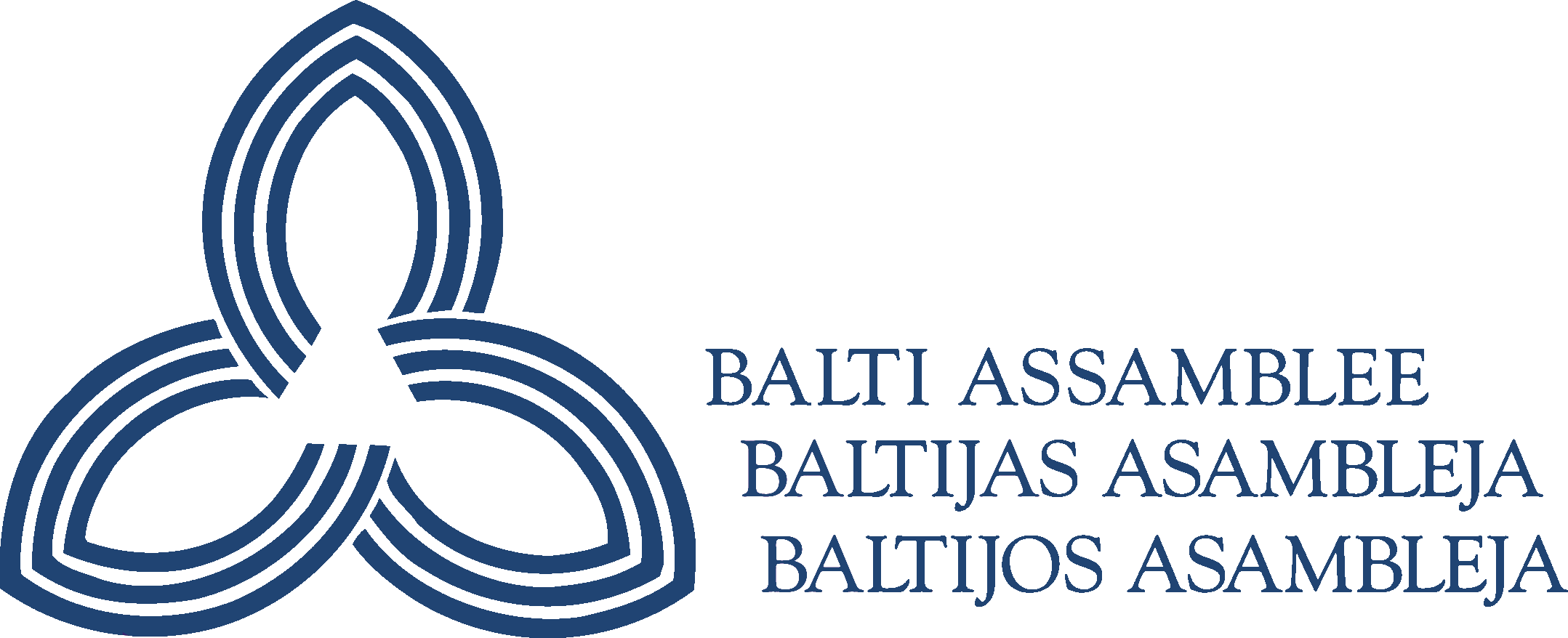 Baltic Assembly logo